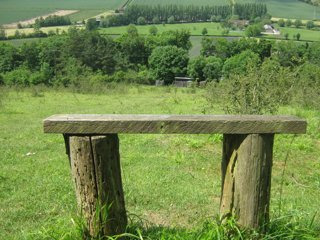 Bench on Preston Hill This bench is at the top of a field on Preston Hill, beside a footpath leading from A225 Station Road (hidden in the trees), heading uphill to Preston Hill Plantation. Castle Farm is seen on the otherside of the Darenth Valley.